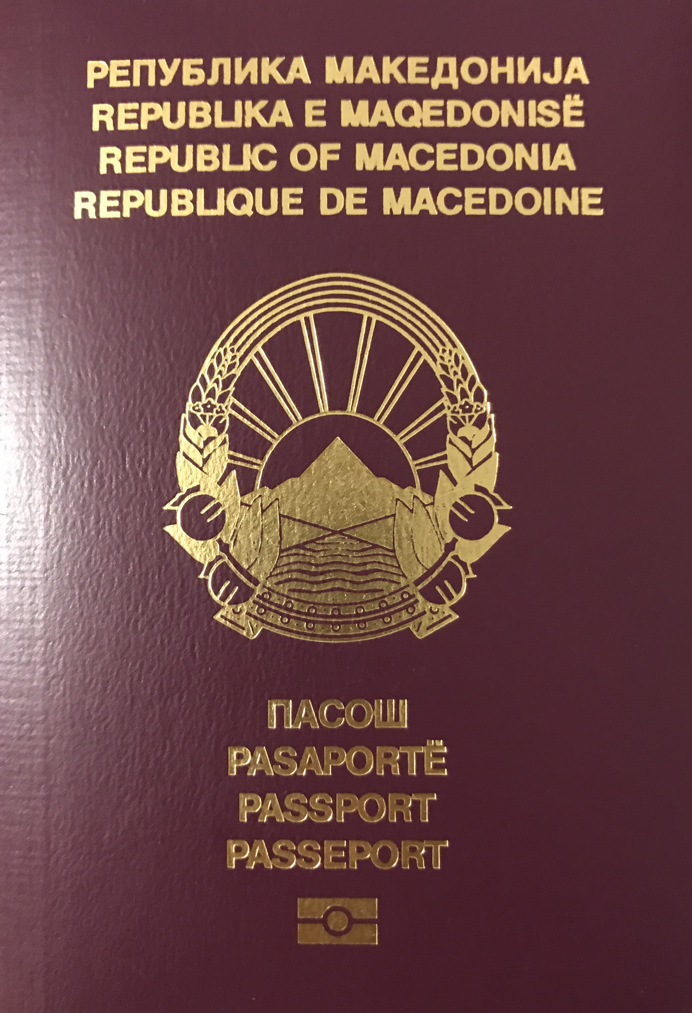 My Macedonian Passport Cover